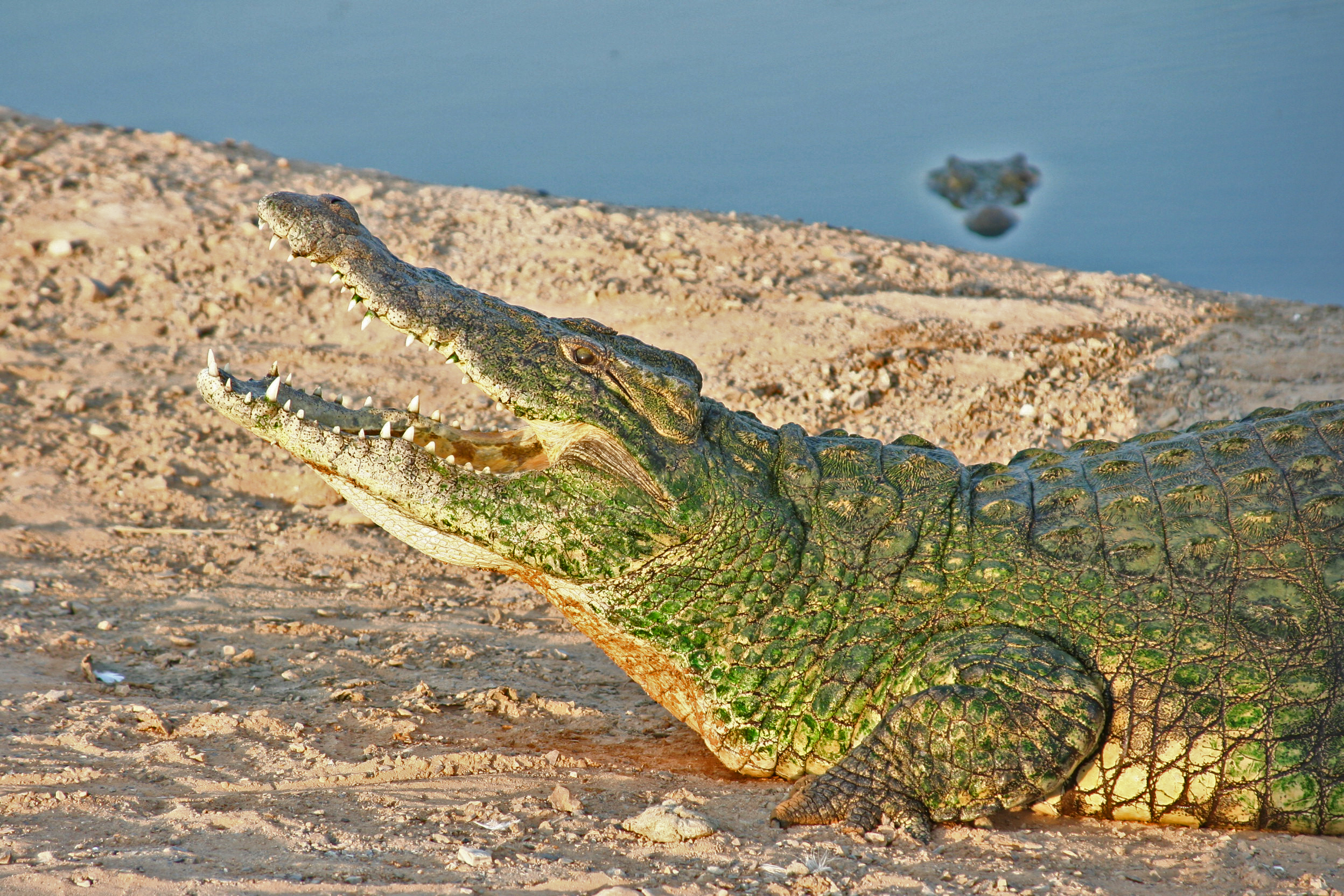 Taken at Crocoloco Crocodile farm Israel